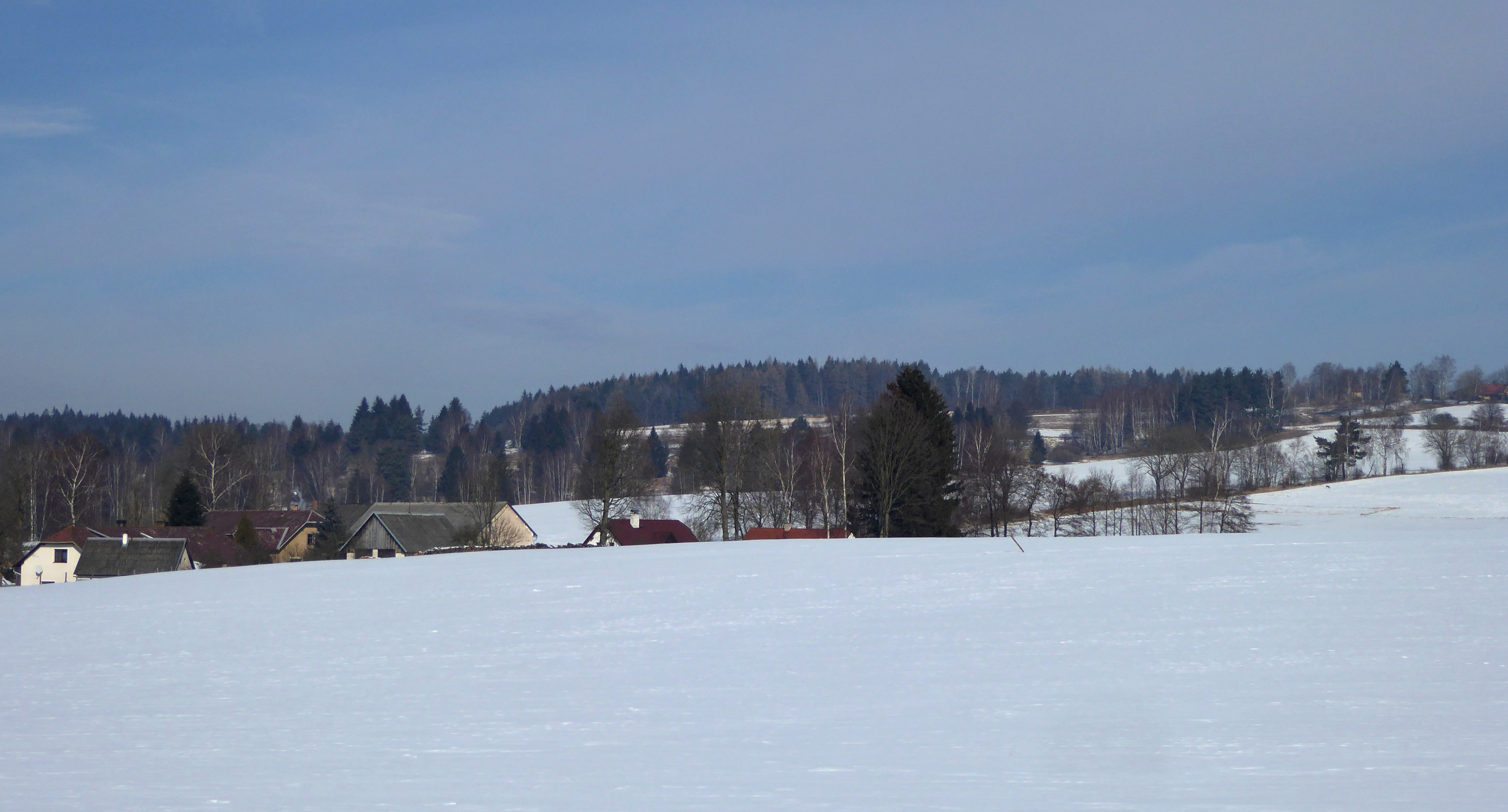 The small hamlet of "Možděnice", part of village "Vysočina", lies below the Zuberský hill (651 m above sea level), south of the peak. The constructions at an altitude of about 560-580 m along the nameless watercourse, the source of "Dlouhý potok" (the buildings in the north part of the village on the photo on the left). The boundary between geomorphological districts runs in the slope of the hill, below the "Stružinecká" knoll hill (the hamlet of "Možděnice"), the top part lies in the "Kameničská" Highlands (the nature reserve of "Zubří" on a hill southwest under the top on the cadastral territory "Trhová Kamenice"). Photo location: Czechia, Pardubice Region, municipality Vysočina, the hamlet of "Možděnice", "Stružinecká" knoll hill.